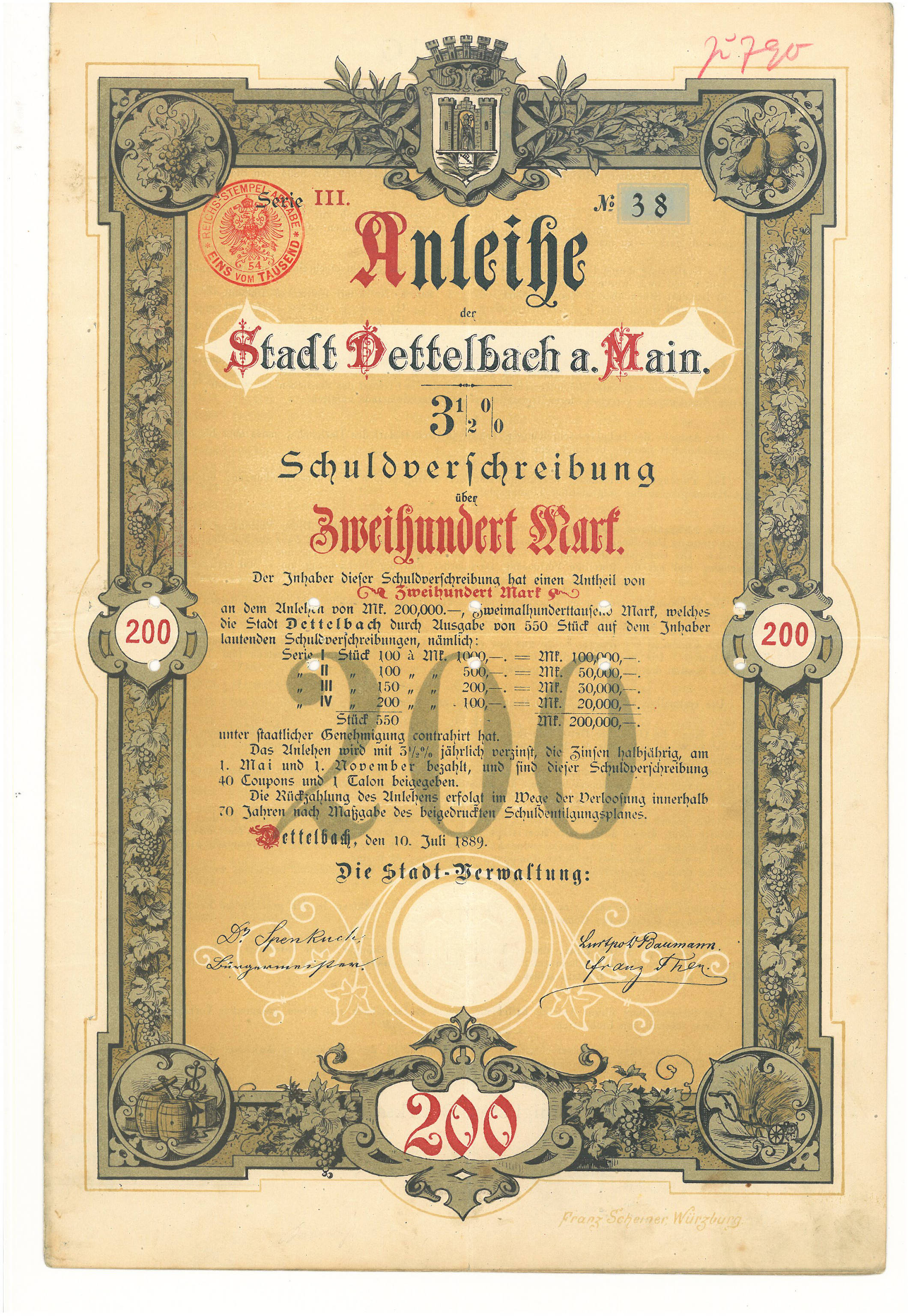 Bond of the City of Dettelbach am Main, issued 10. July 1889